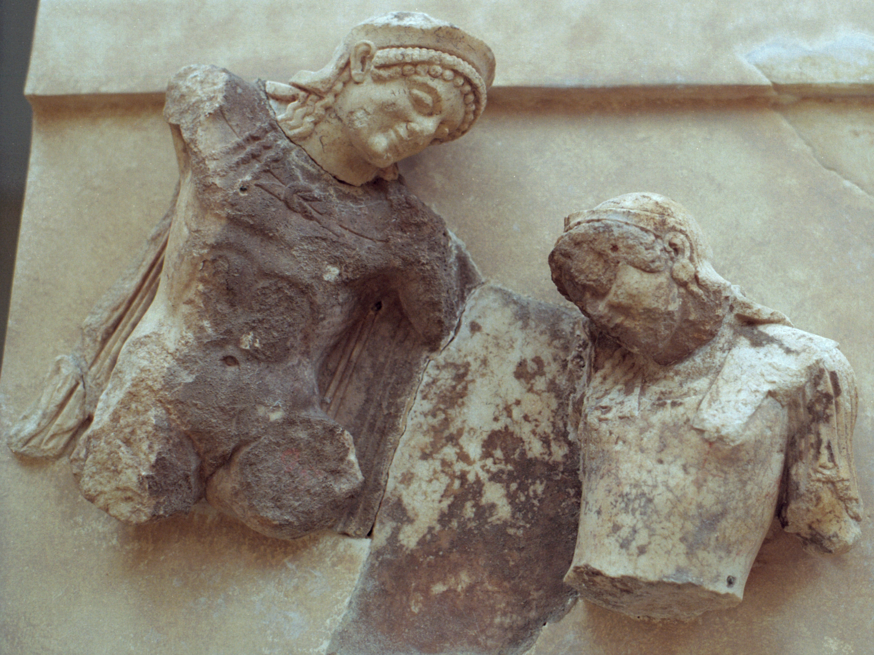 Metope from the southern side of the Treasury of Athenians at Delphi. Theseus and Antiope. Theseus battling with the Queen of Amazons, around 500 BC. Archaeological Museum of Delphi.